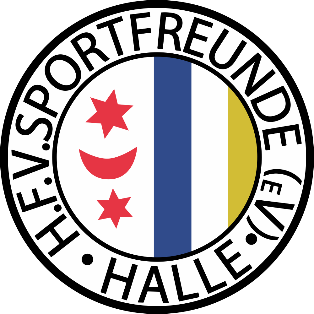 Logo of former german football club Sportfreunde Halle (1902-1945)